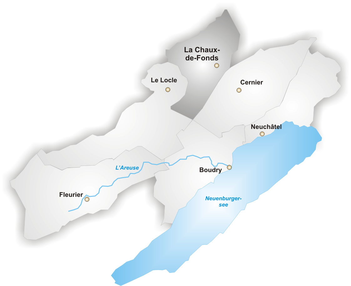 District La Chaux-de-Fonds